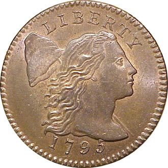 1795 Cent, Liberty Cap, Obverse